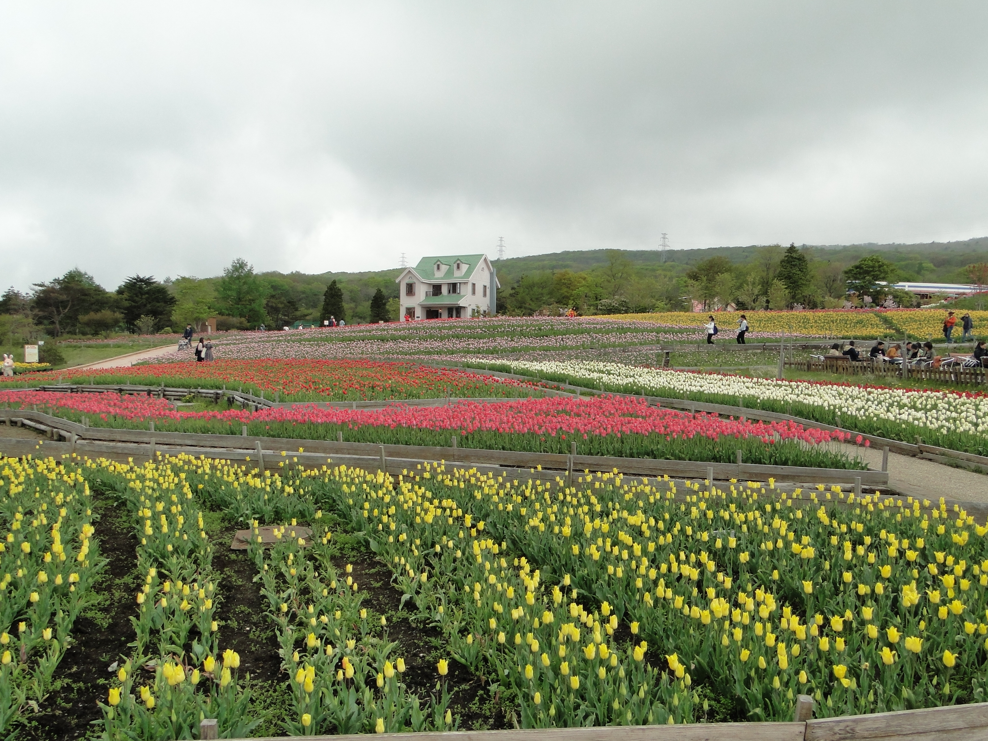 Heavenly Tulip Festival at Grinpa